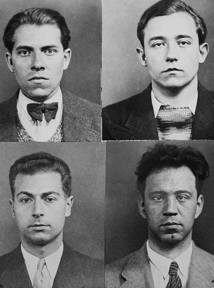 The 'Cagoulards' From Left To Right : Paul Renne, Robert Léger, Henri Place and Michel Harispe.